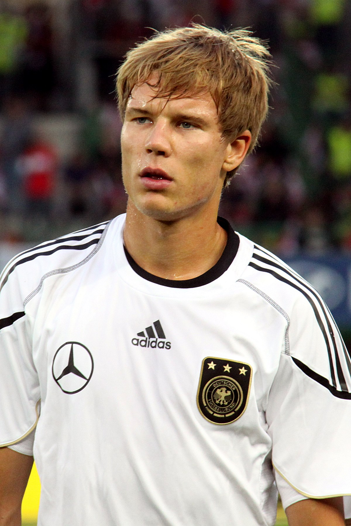 Holger Badstuber (FC Bayern Munich), german national football team - OpenStreetMap(Info)